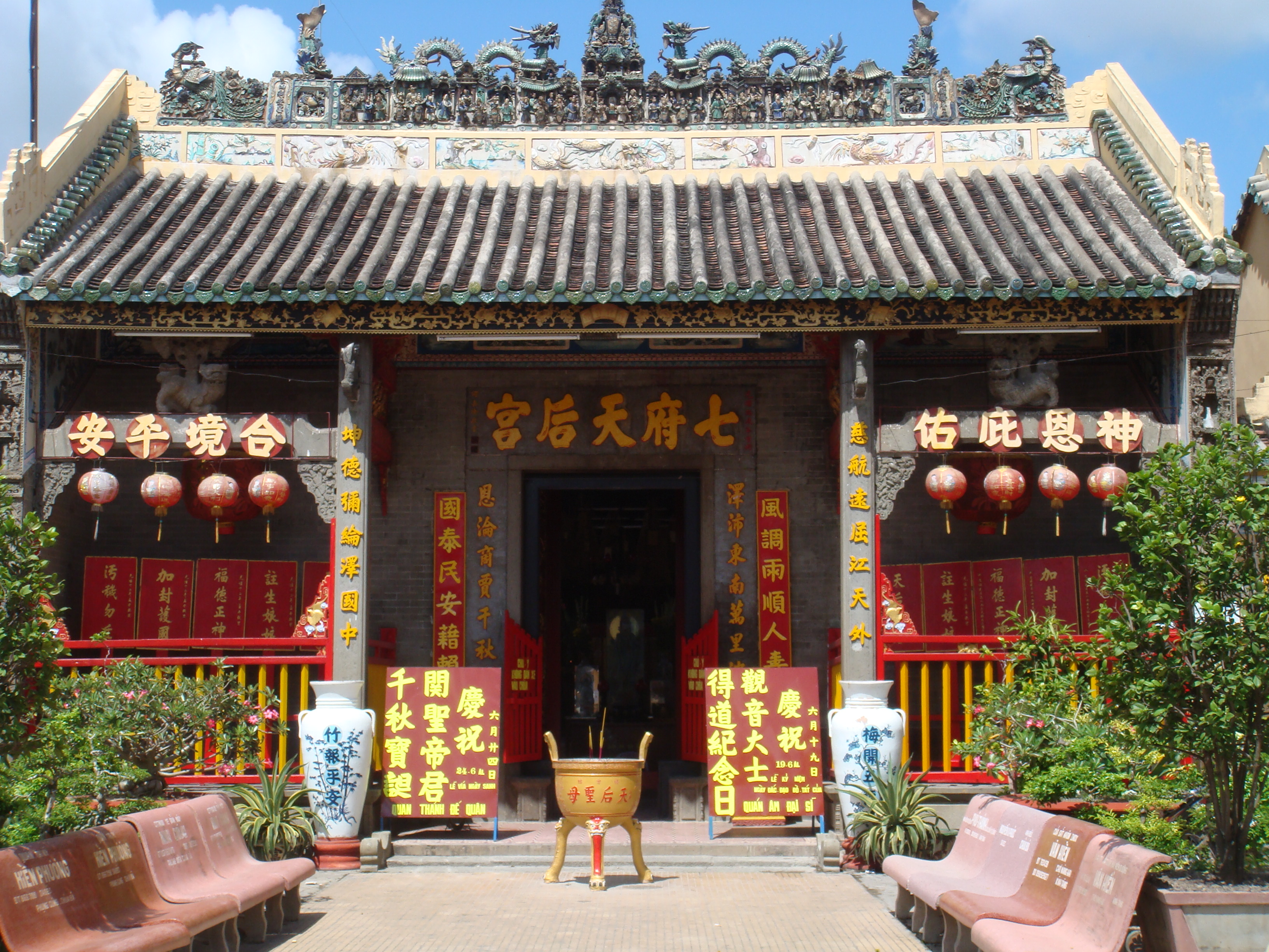 Thien Hau pagoda in Sadec town, Dong Thap province, Vietnam